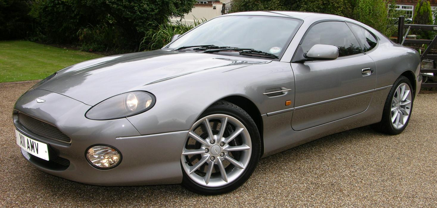 Aston Martin DB7 V12 Vantage